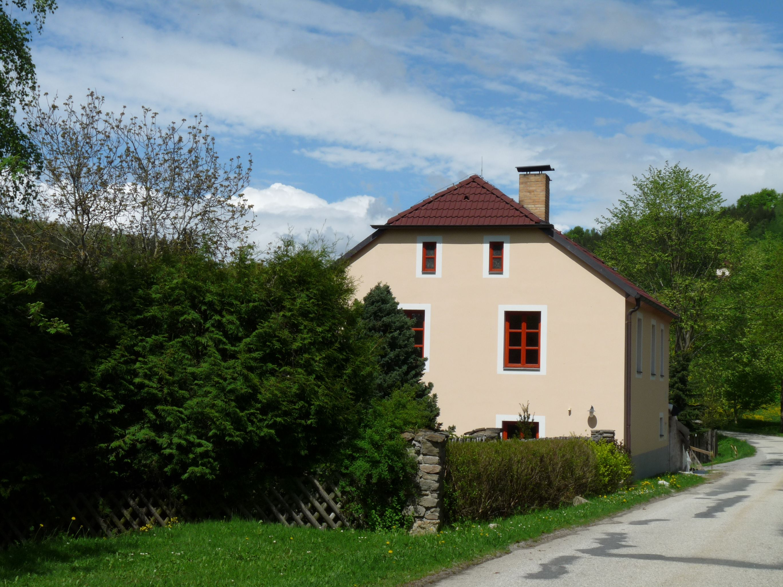 House No 15 in the former village of Kronet, Český Krumlov District, South Bohemian Region, Czech Republic.